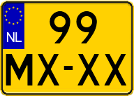 Dutch plate yellow NL Mseries